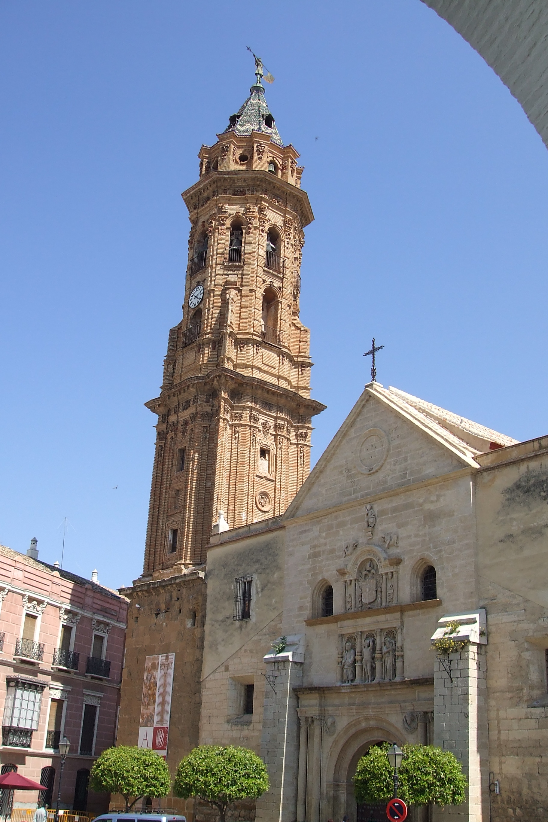 Iglesia de San Sebastián, Antequera, Málaga, Spain